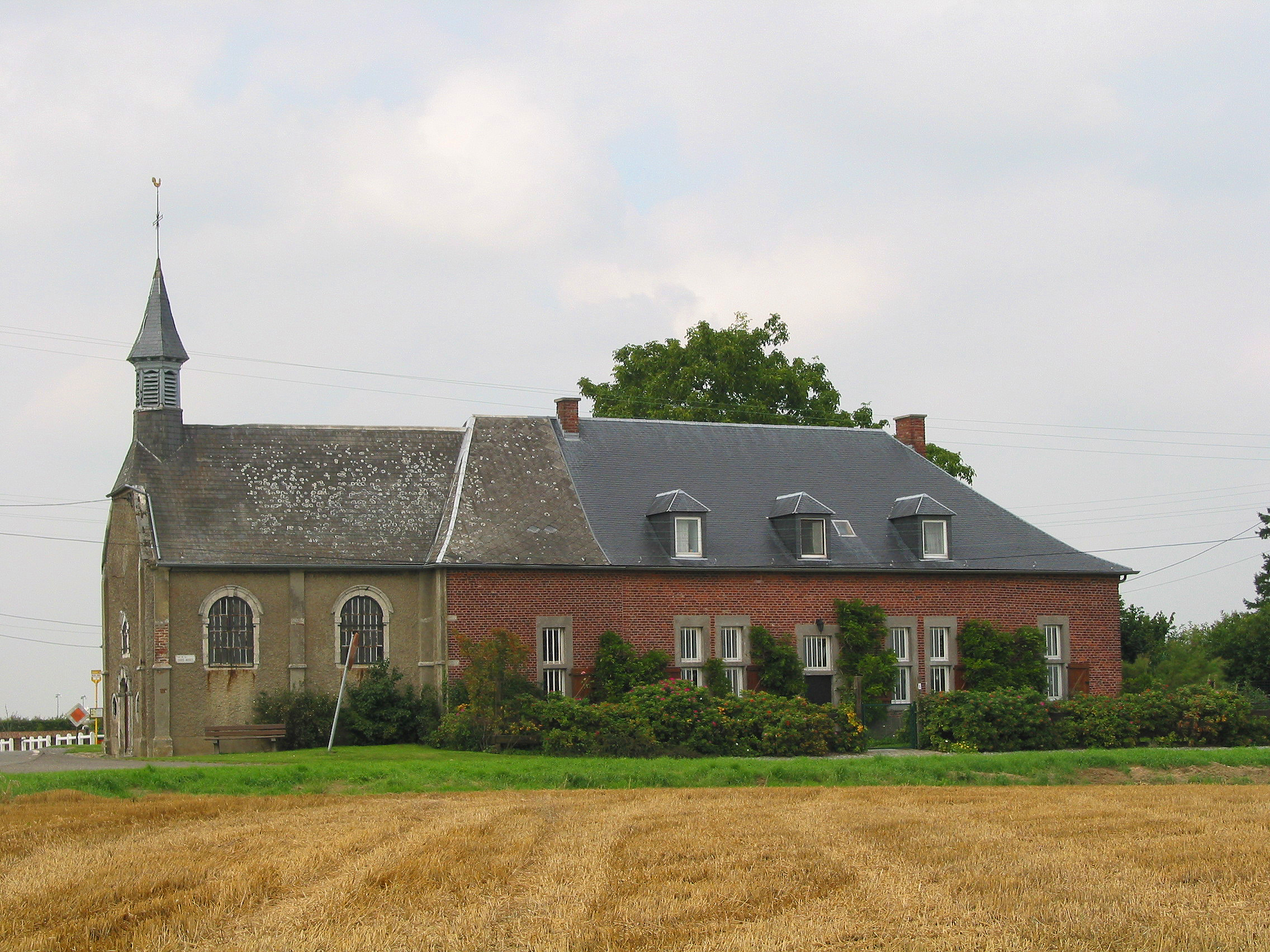 Aische-en-Refail (Belgium), the Croix-Monet chapel (1717).